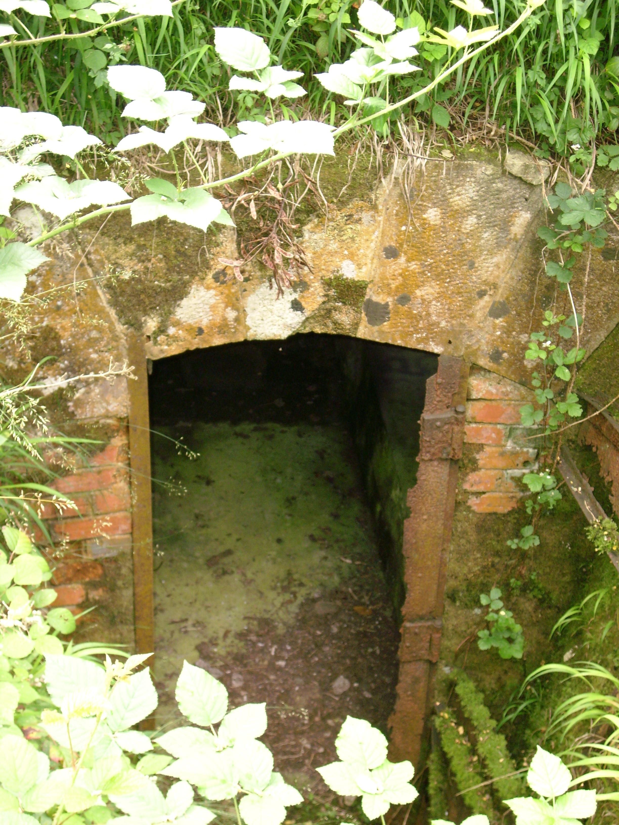 The "batteries" from GYE